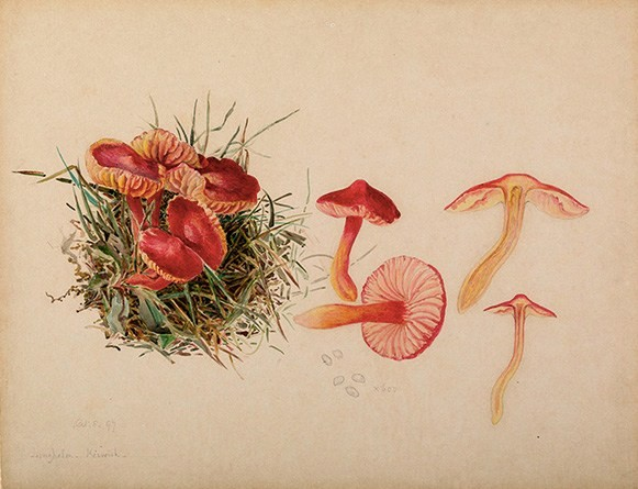 Mycological illustration of the reproductive system of a fungus. Hygrocybe coccinea (website Armitt Museum)